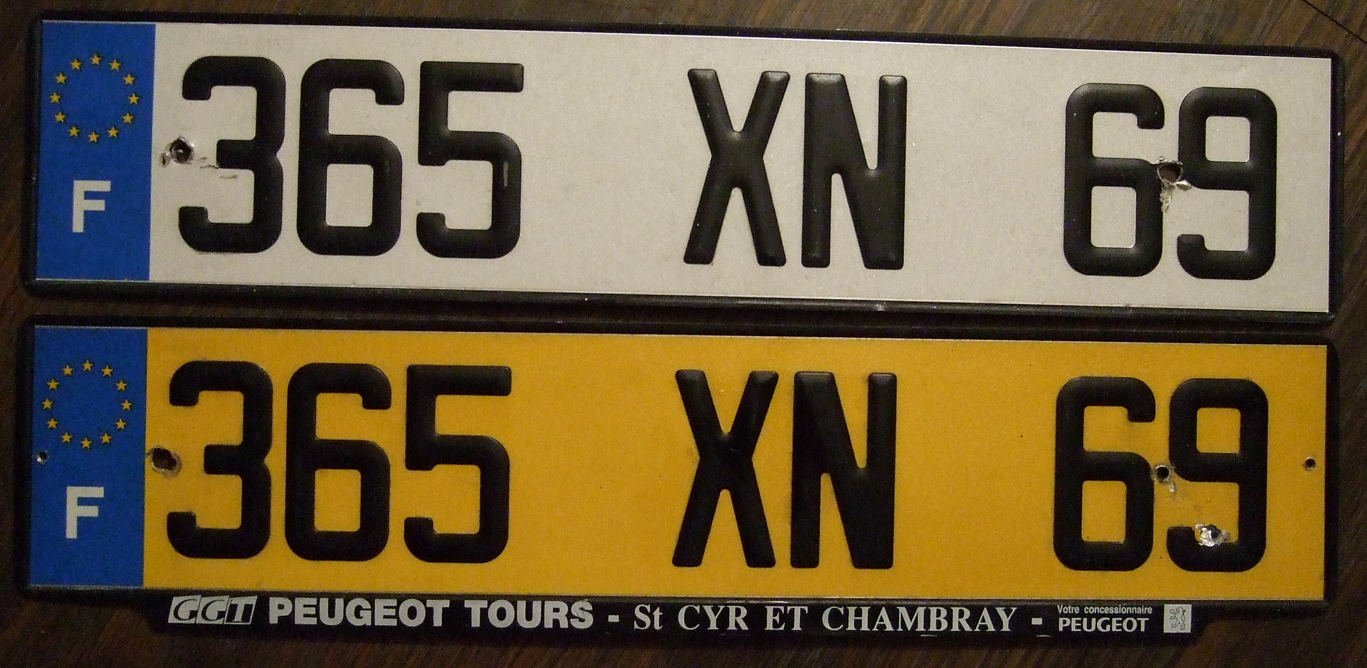 here is a pair of French license plates of the current EEC style. The yellow rear plate has advertising on a strip along the bottom which is part of the plate. The white plate is used on the front of the vehicle.